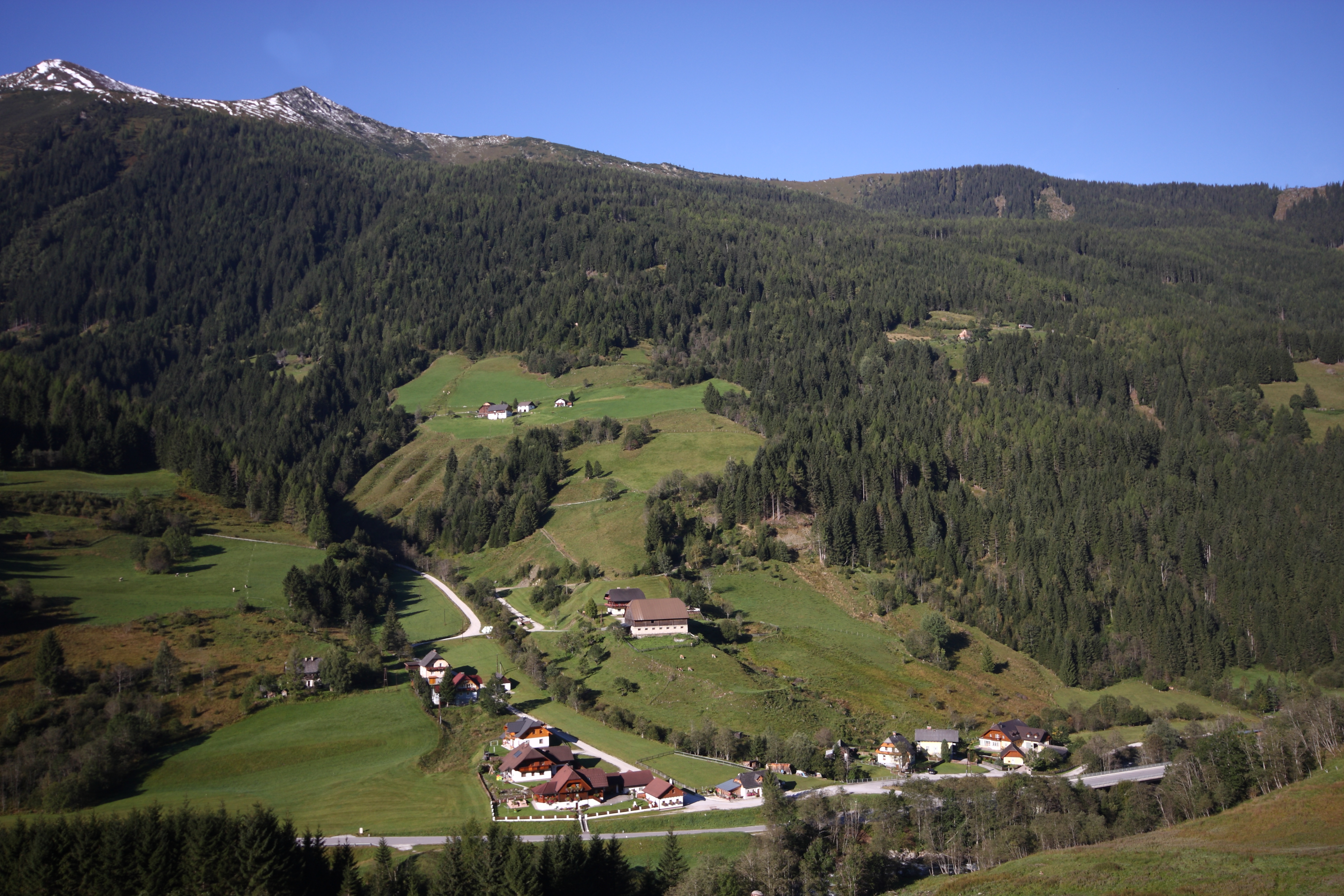 Großsölktal, Haus im Ennstal, Styria, Austria